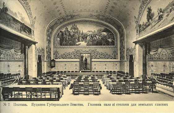 Interior of the Poltava Zemstvo administration building. Visible are the 3 large painted panels by Serhii Vasylkivsky.